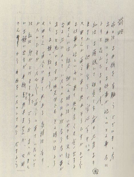 The letter to Genzo Seki from Kazuo Ishikawa.